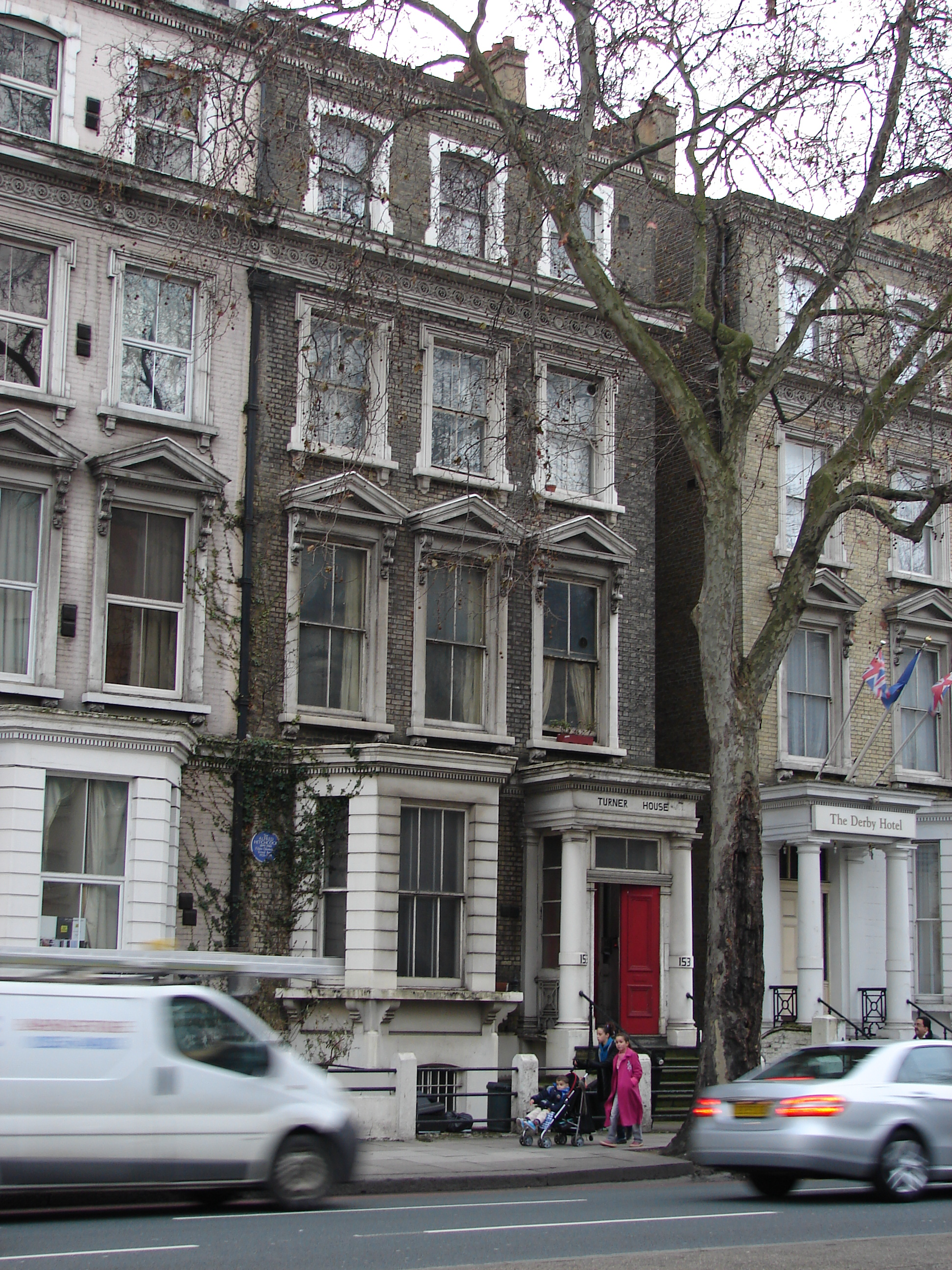 Sir Alfred Hitchcock. 153 Cromwell Road, South Kensington, London, SW5 0TQ, London Borough of Kensington And Chelsea